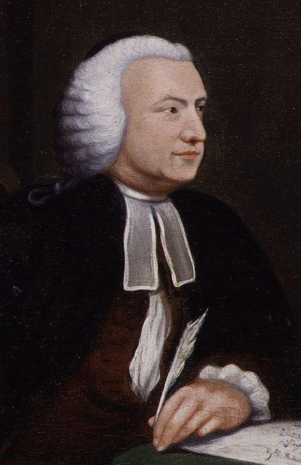 Cropped detail from John Glynn, John Wilkes and John Horne Tooke, after Richard Houston (died 1775), given to the National Portrait Gallery, London in 1922.